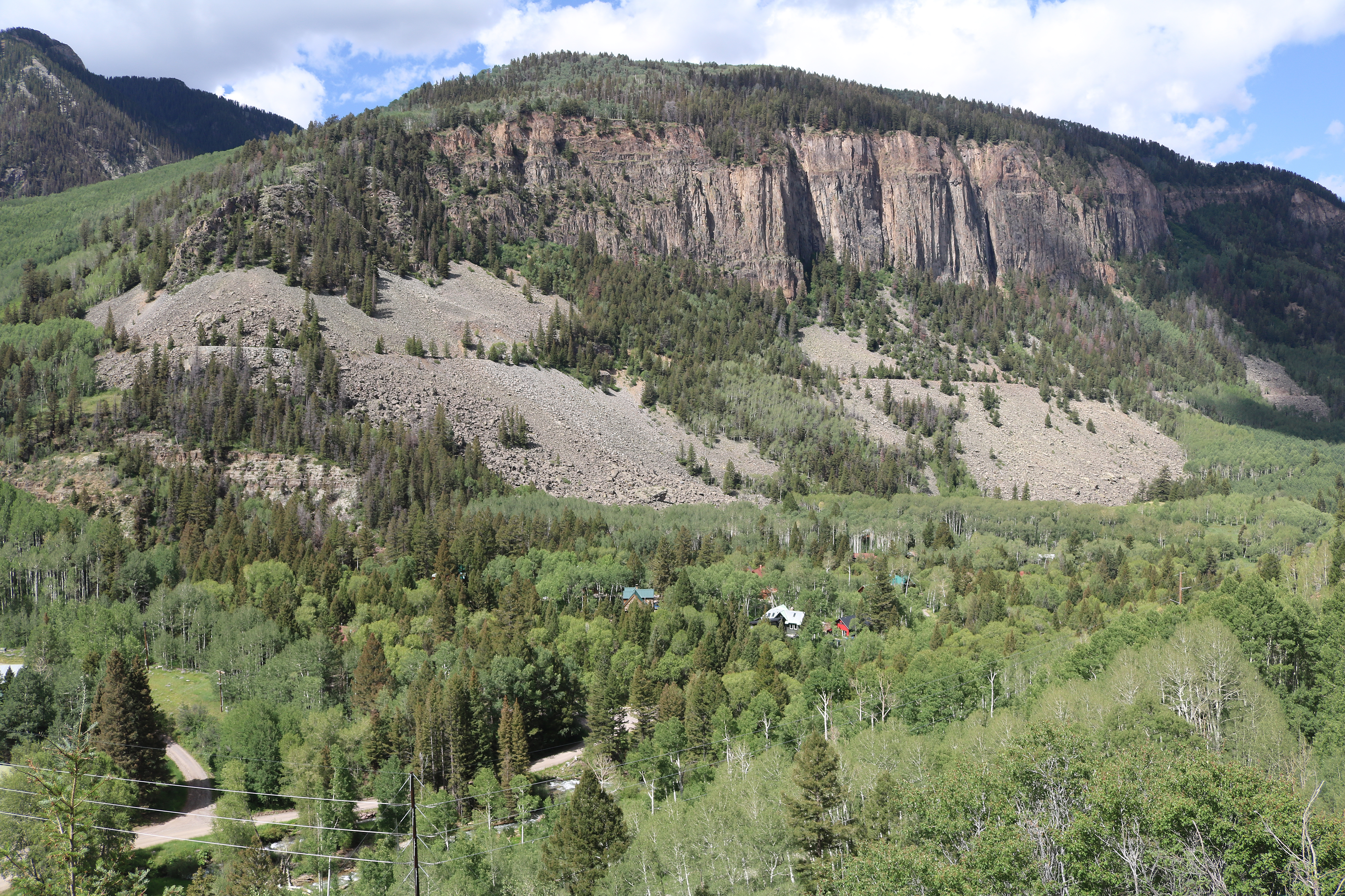 The unincorporated community of Ames, Colorado, in San Miguel County. Ames is in the Ilium Valley.